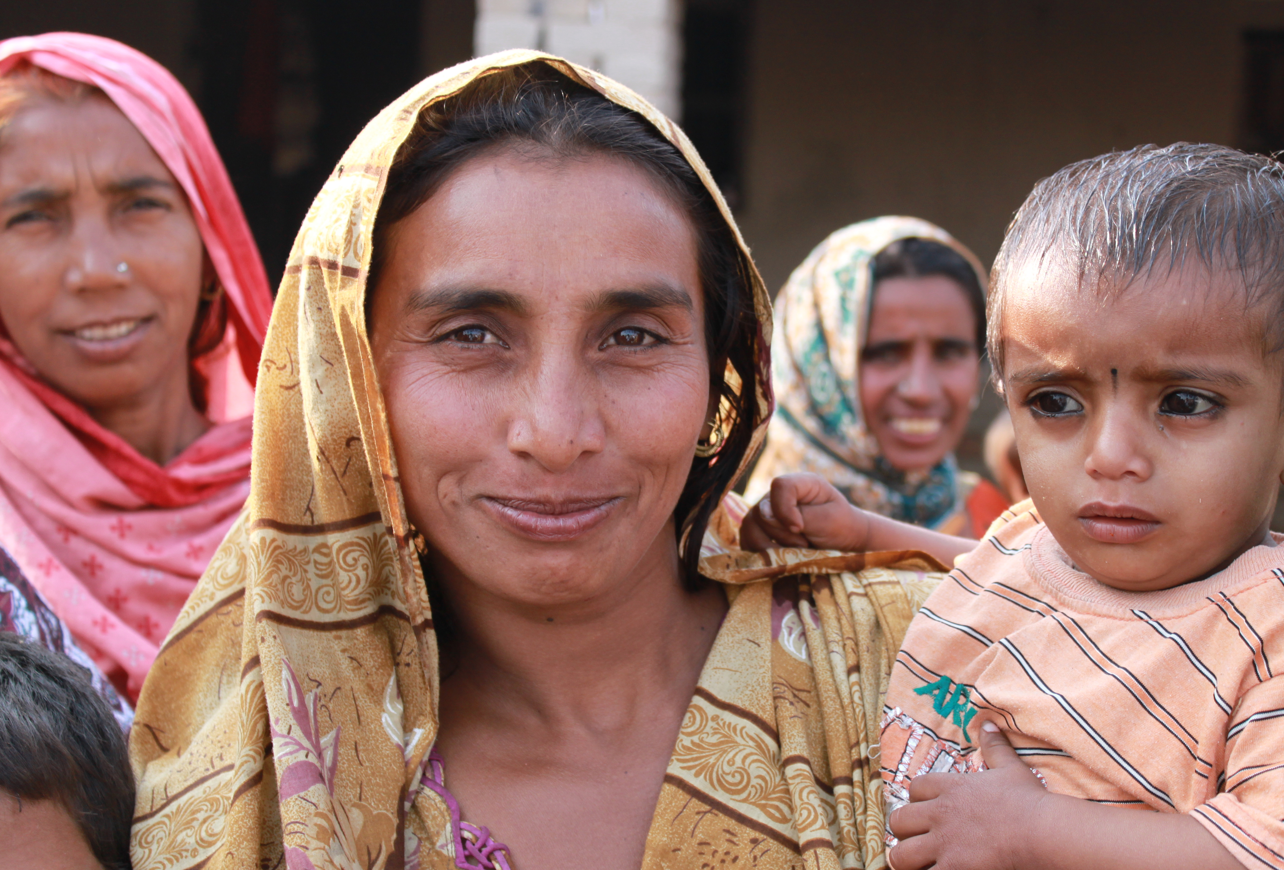 Zadi, 35, with her two-year-old son Tahir. "The flood came in the middle of the night with no warning. We could only save ourselves." "We are glad to be back in our village now, but we have lost everything. We must be patient. This is a test from God." Find out more about the UK government's response to the Pakistan floods at